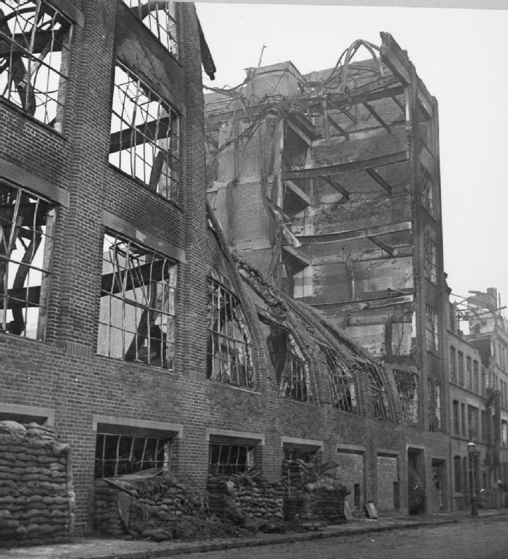 Bomb Damage in Birmingham, England, C 1940 The wall of a large factory building has folded inwards following an air raid to this area of Birmingham. The building is an empty, roofless shell, but although the glass is missing, all the window frames appear to be intact, despite the semi-collapse of the building. On the ground floor, there appears to be little damage, as the windows have been protected by sand bag walls.